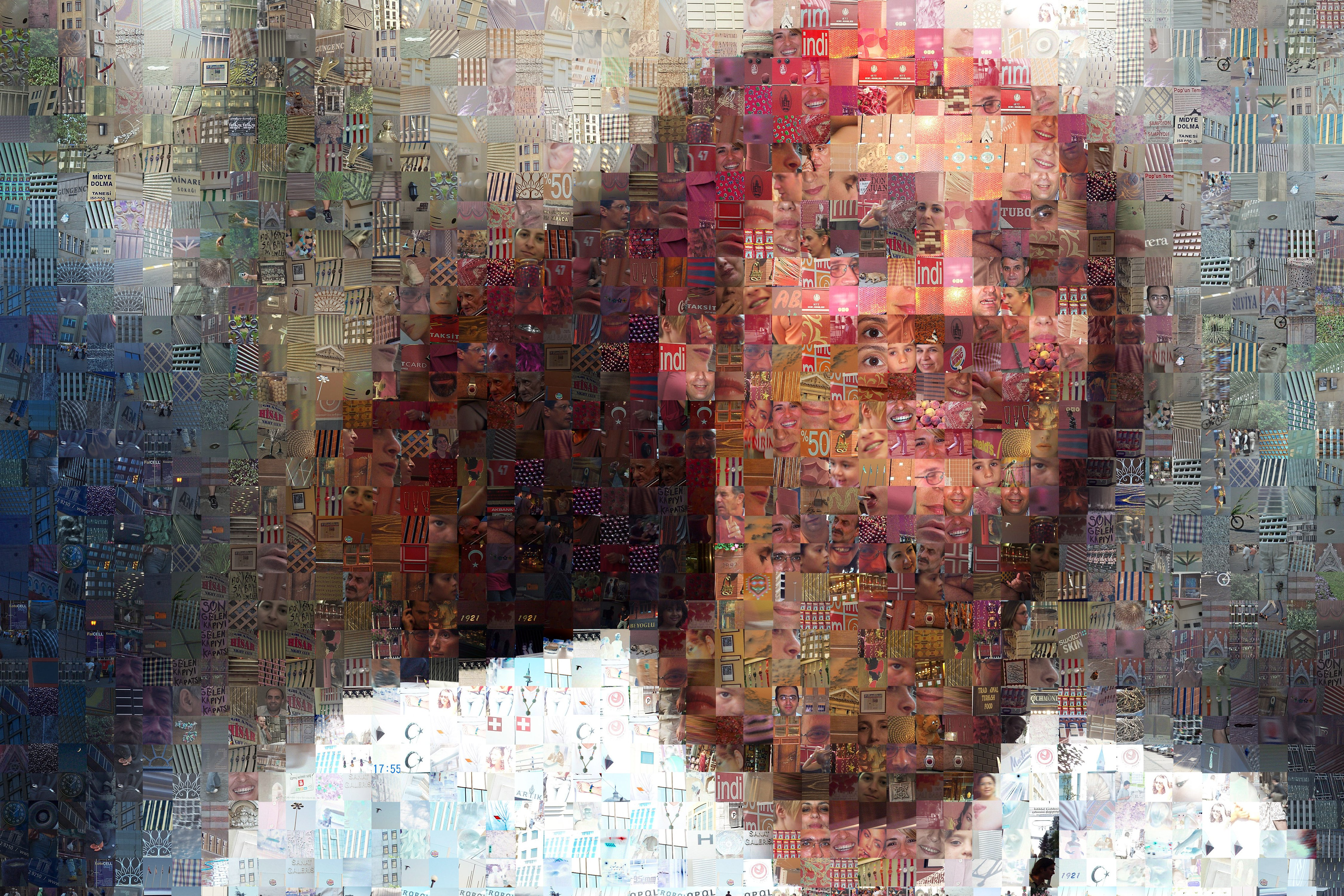 Imagemosaics from Beyoglu / Istanbul This JPG graphic was created with GIMP.